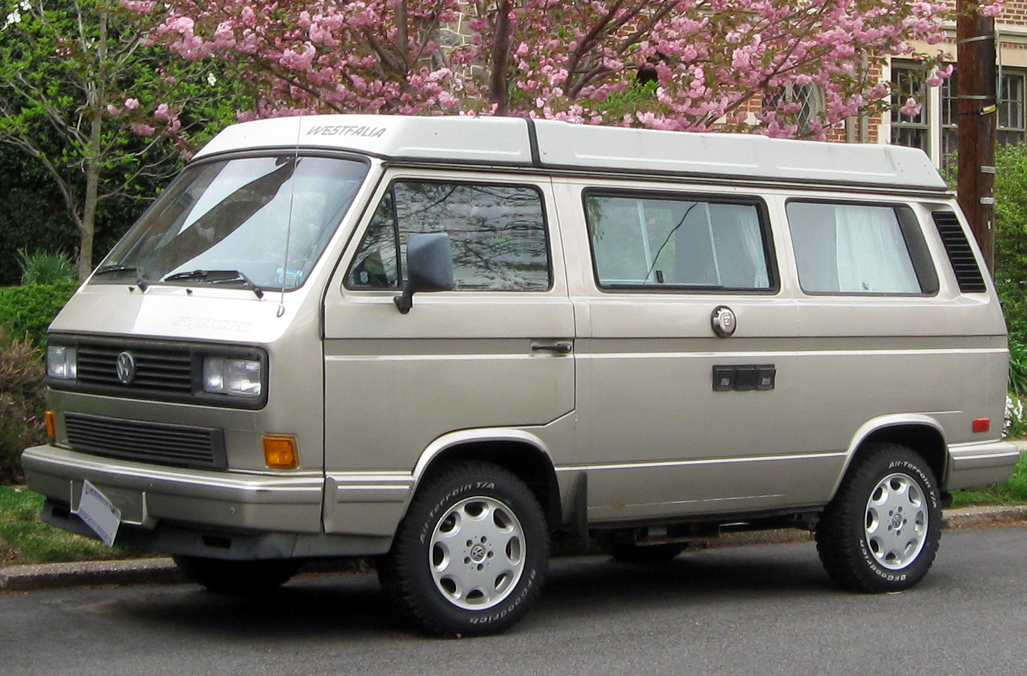 Volkswagen Vanagon photographed in Washington, D.C., USA.